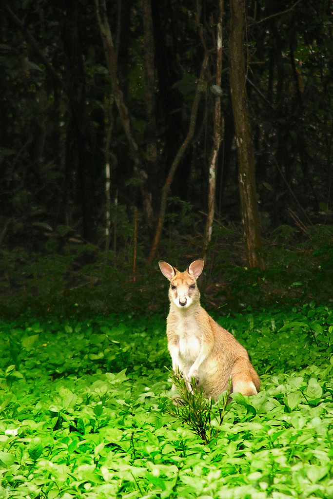 Agile wallaby (Macropus agilis), in Cooktown, Queensland, Australia